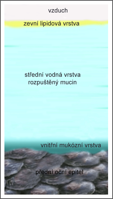 tears_film_of_eye